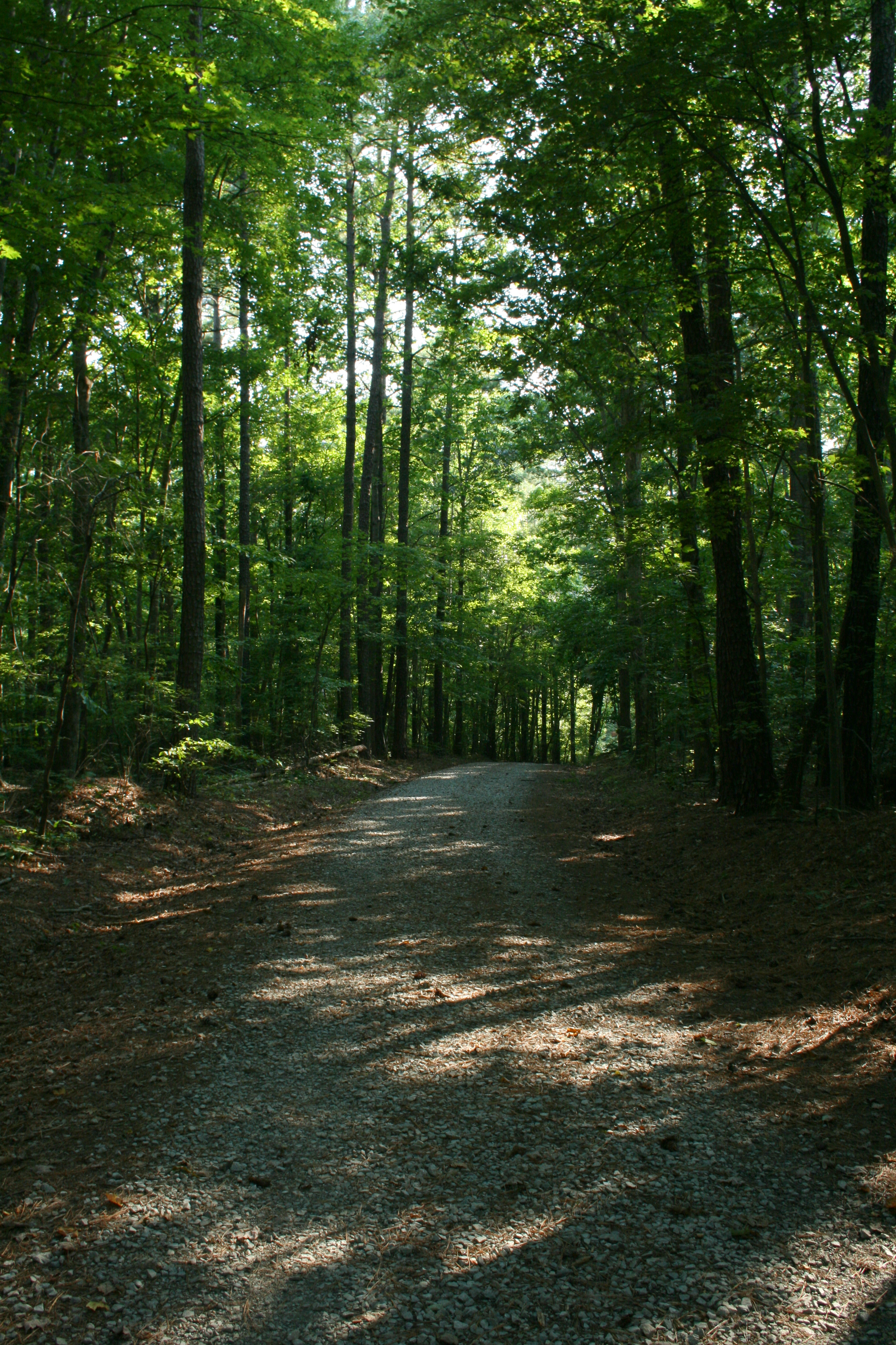 Trail entering the Korstian Division of Duke Forest from Mount Sinai Road in Durham, North Carolina.